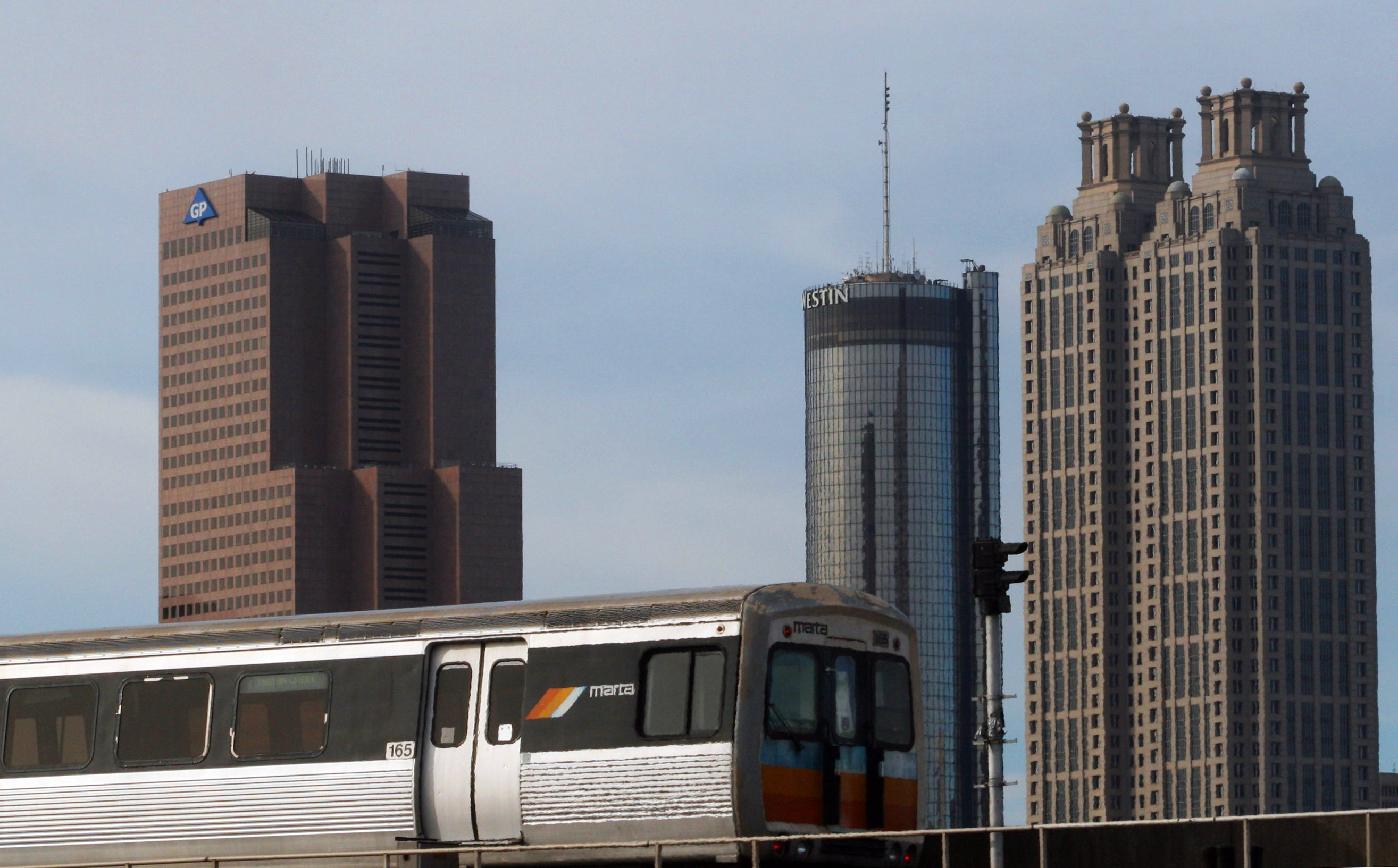 A MARTA rapid transit train and the Atlanta, Georgia skyline.